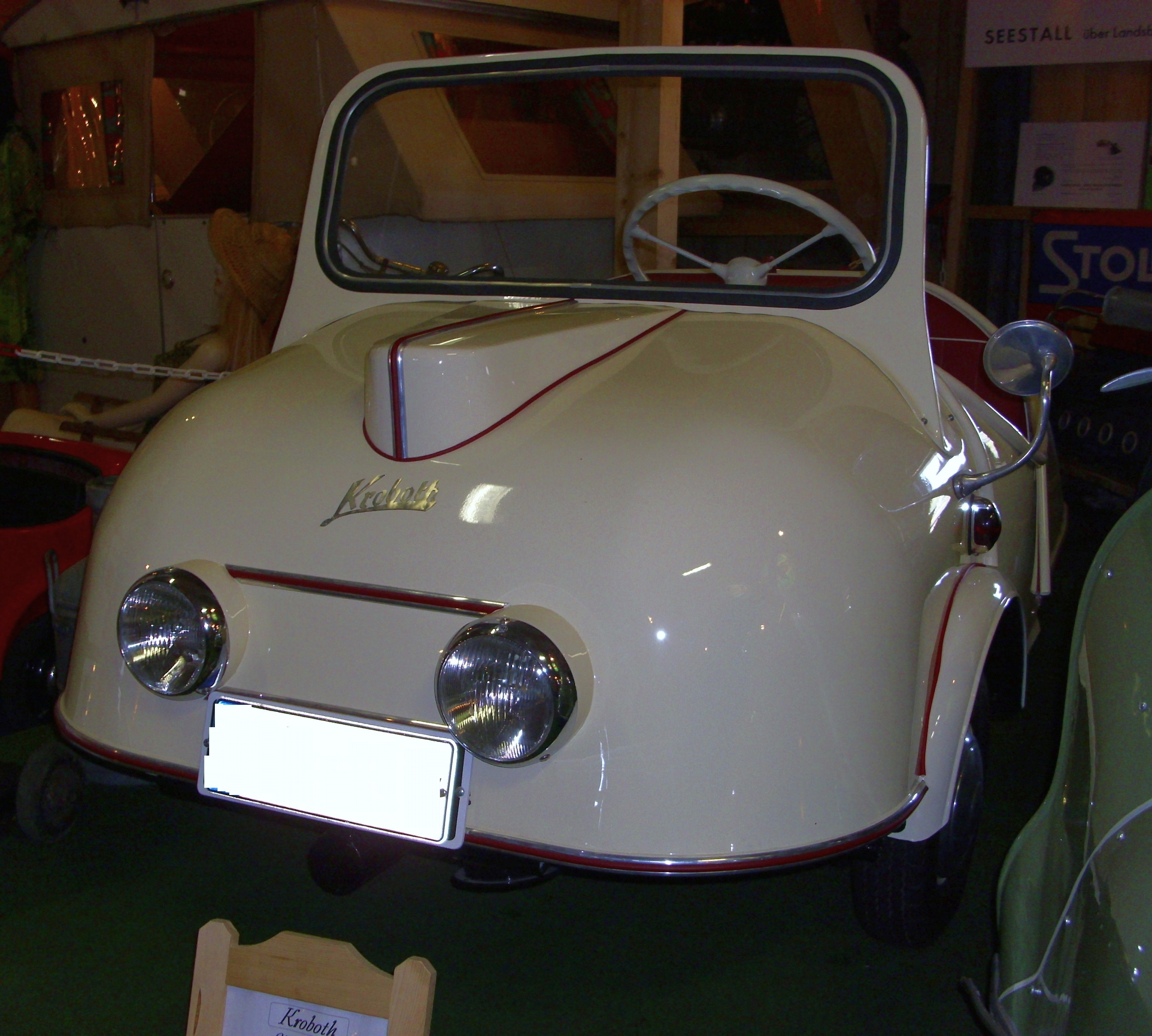 Kroboth 1954